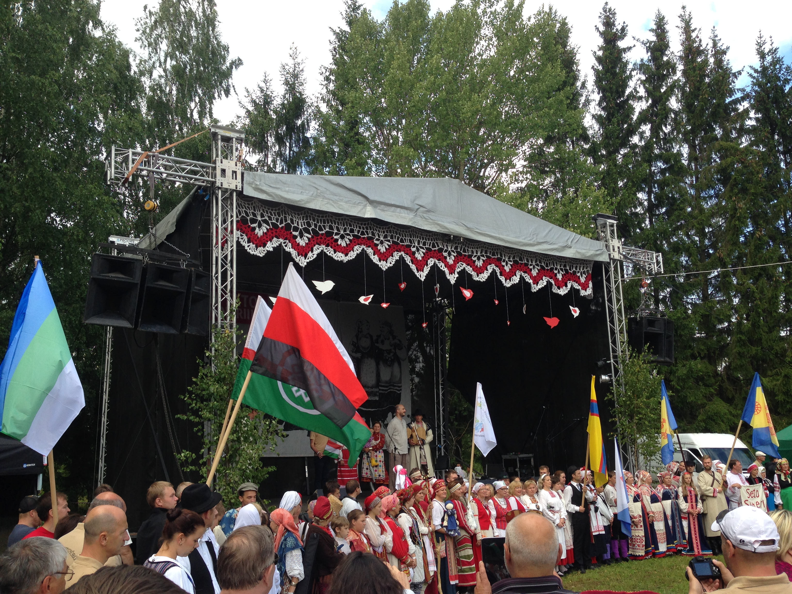 Erzya ethnic flag in Obinitsa, Meremäe, Estonia. August 1, 2015 was the election of the King (Queen) Seto. On the feast of the Finno-Ugric peoples came from different places of the world.